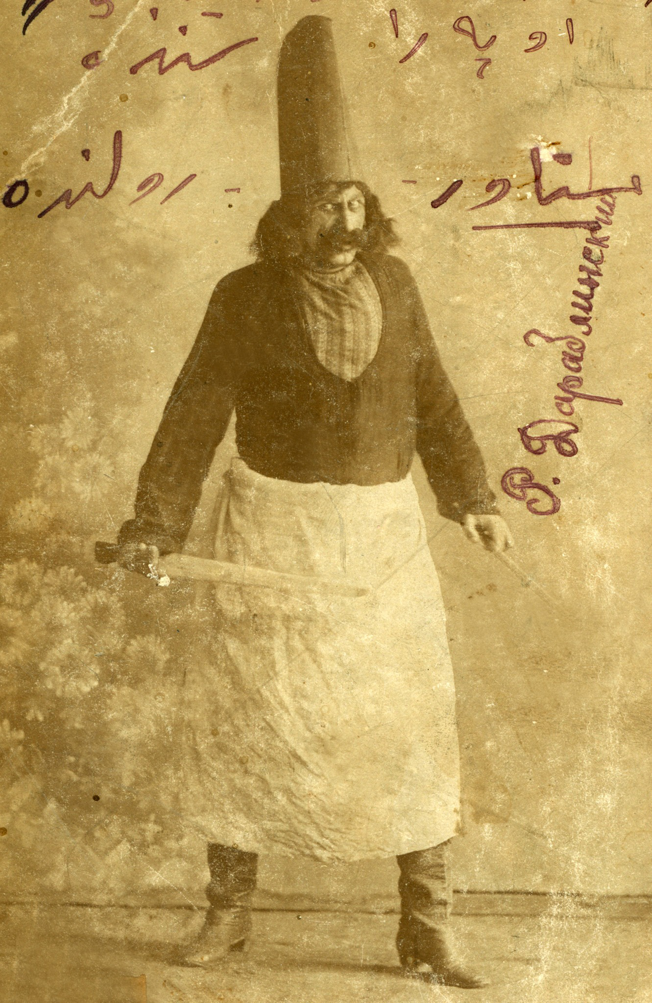 Rza Darabli as Cook Mastavar (Uzeyir Hajibeyov's "Shah Abbas and Khurshidbanu")